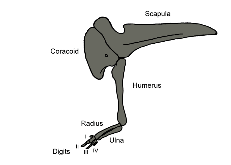 Diagram of the forelimb of the herbivorous ceratosaur Limusaurus inextricabilis, showing characteristic mesomelia and hypophalangia. Referenced from Guinard, G. (2016). "Limusaurus inextricabilis (Theropoda: Ceratosauria) gives a hand to evolutionary teratology: a complementary view on avian manual digits identities". Zoological Journal of the Linnean Society 176 (3): 674–685. and Wang, S.; Stiegler, J.; Amiot, R.; Wang, X.; Du, G.-H.; Clark, J.M.; Xu, X. (2017). "Extreme Ontogenetic Changes in a Ceratosaurian Theropod". Cell Biology 27: 1–5.